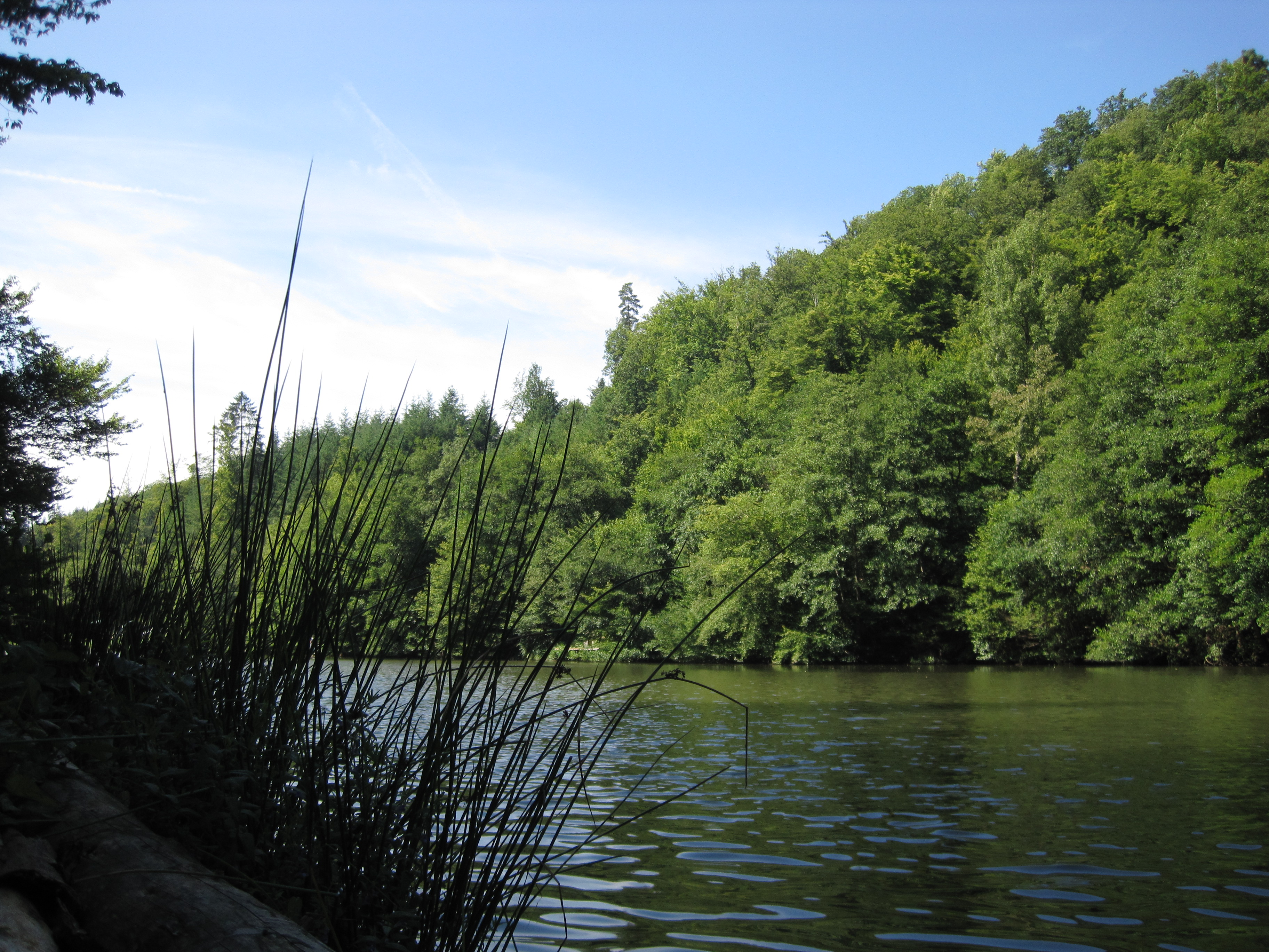 Lake Wisper nearby Heidenrod-Wisper, Rheingau-Taunus-District, Hesse, Germany. The artificial lake was created in the mid-1970s.